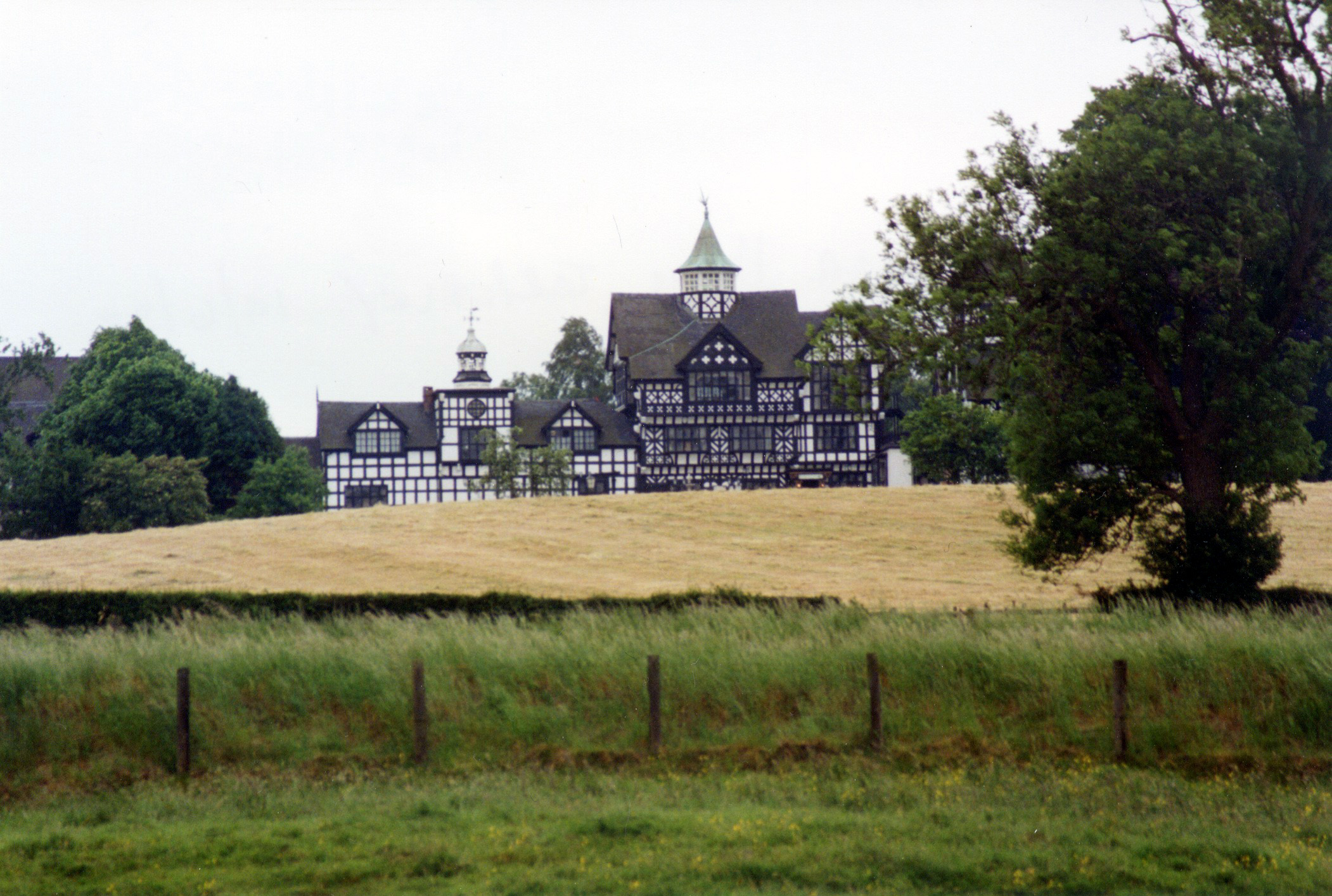 Photograph of the Wild Boar Hotel, Beeston